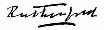 Source: Scan from document